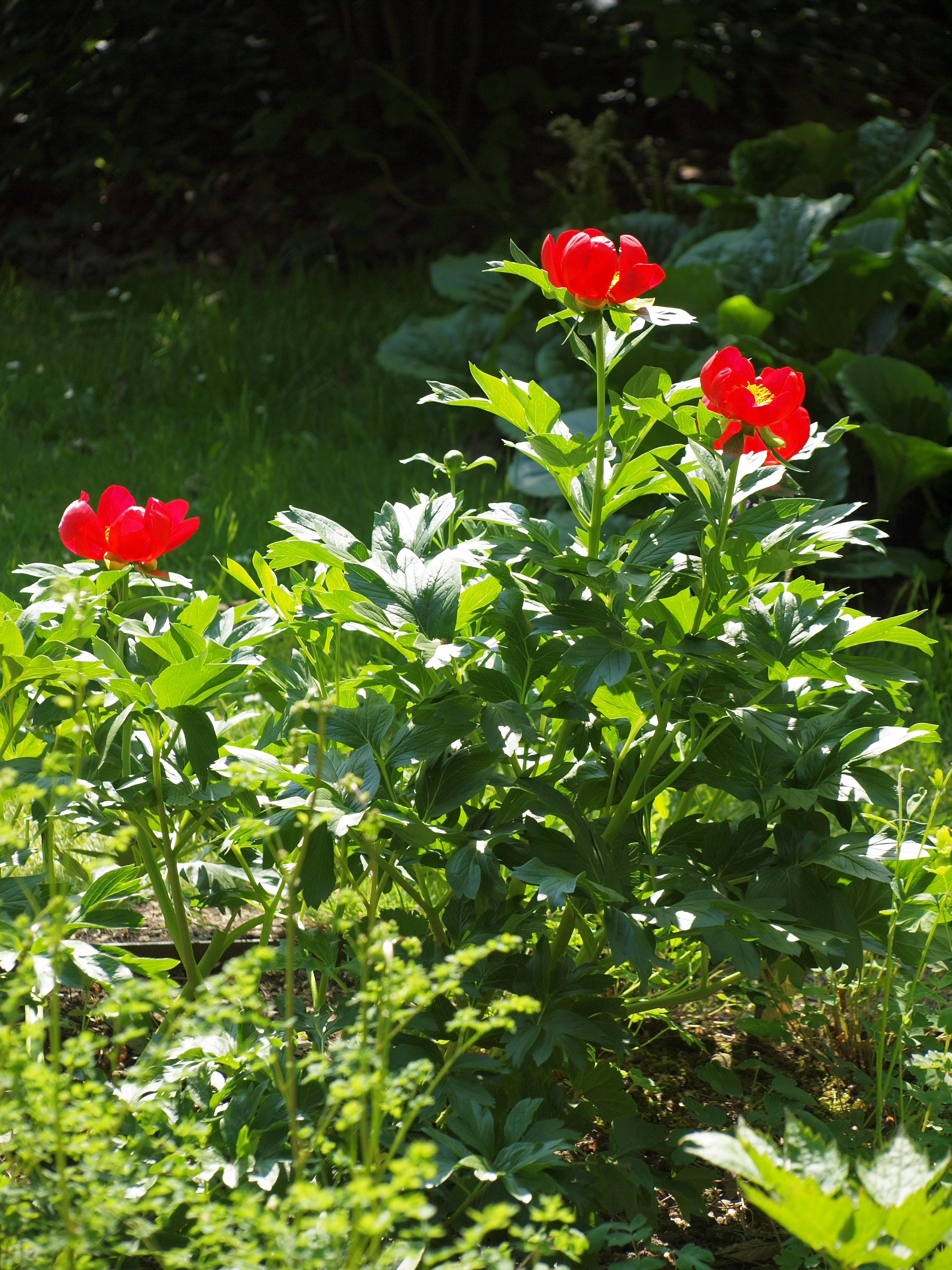 Paeonia peregrina, Botanic Garden Cologne